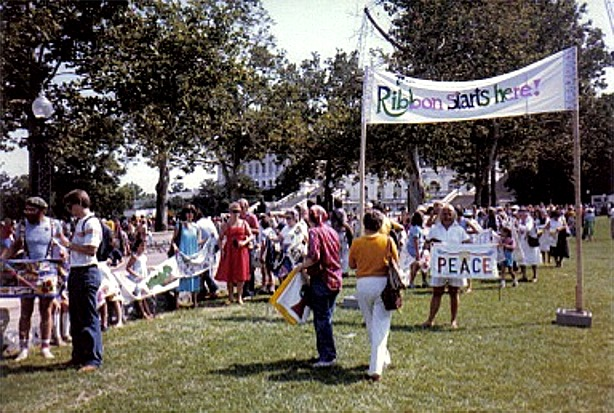 Starting point of Ribbon joining.